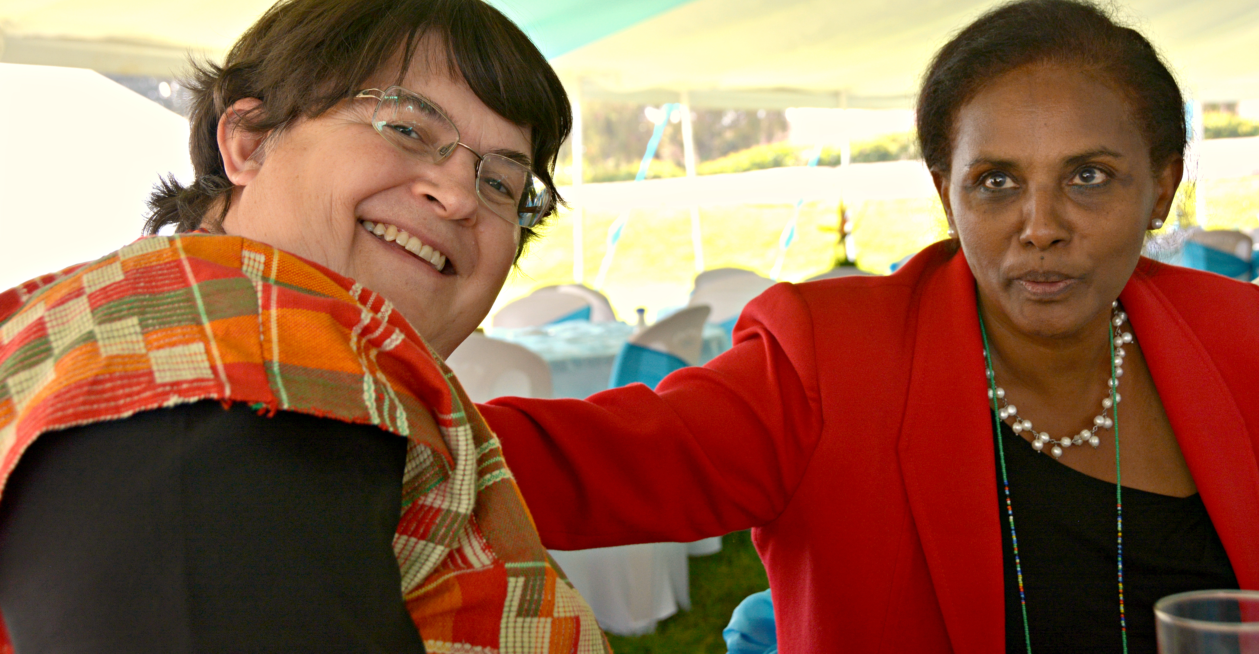 CelebrateBecA: Jan Low, regional director for Africa of the International Potato Center (CIP), catches up with Segenet Kelemu, director general of the International Centre for Insect Physiology or Ecology (ICIPE) (photo credit: ILRI/Susan MacMillan)